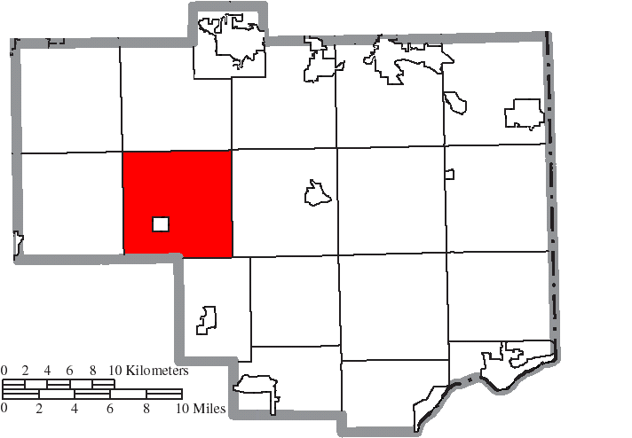 Map of the municipal and township boundaries of Columbiana County, Ohio, United States, as of the 2000 census, with the location of Hanover Township highlighted. Township borders are shown only in unincorporated areas in order to differentiate incorporated and unincorporated areas more clearly.